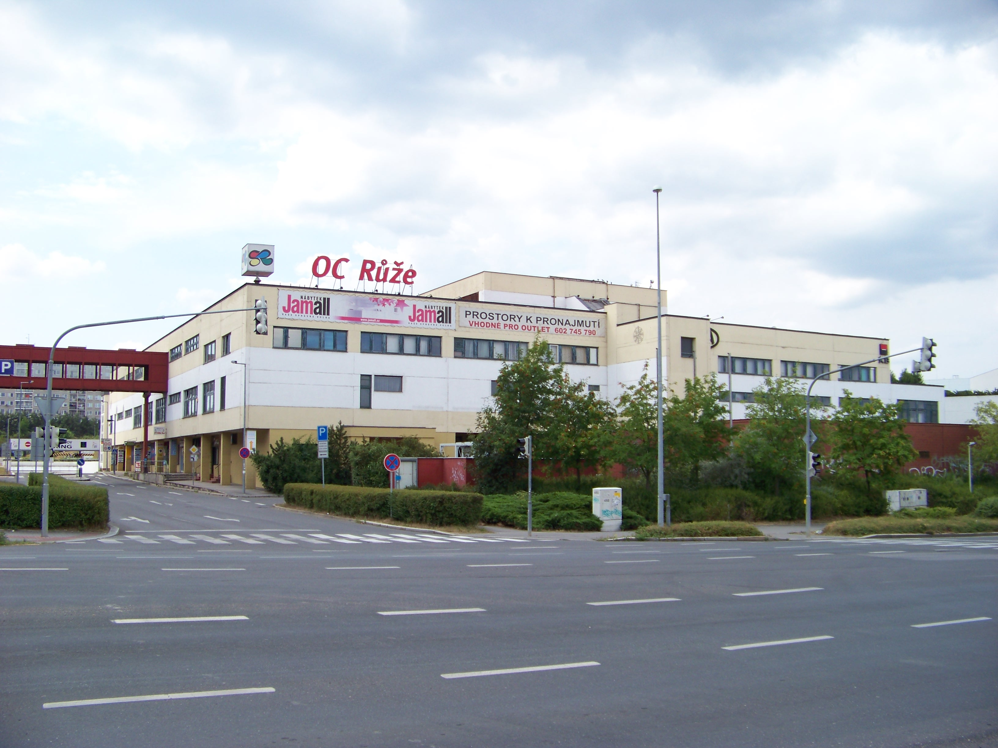 Prague-Chodov, Czech Republic. Chodov Housing Estate, Roztylská and Hráského street, Růže shopping center.